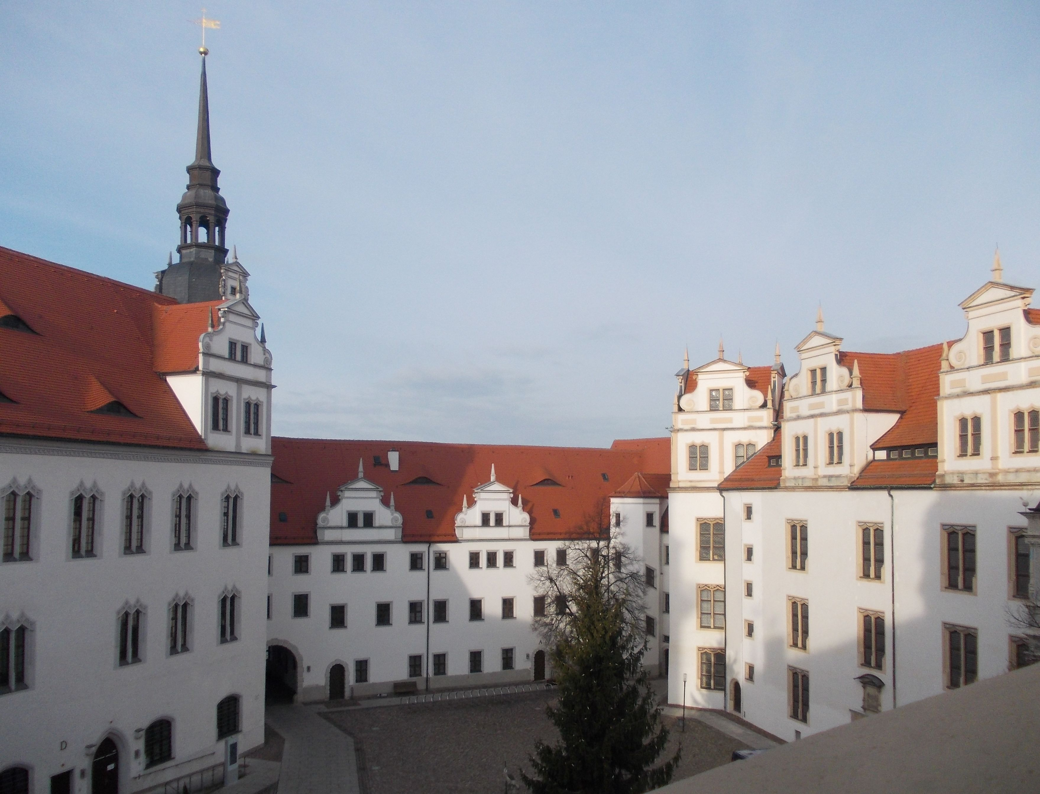 Hartenfels Castle in Torgau (Nordsachsen district, Saxony), view from the stair tower